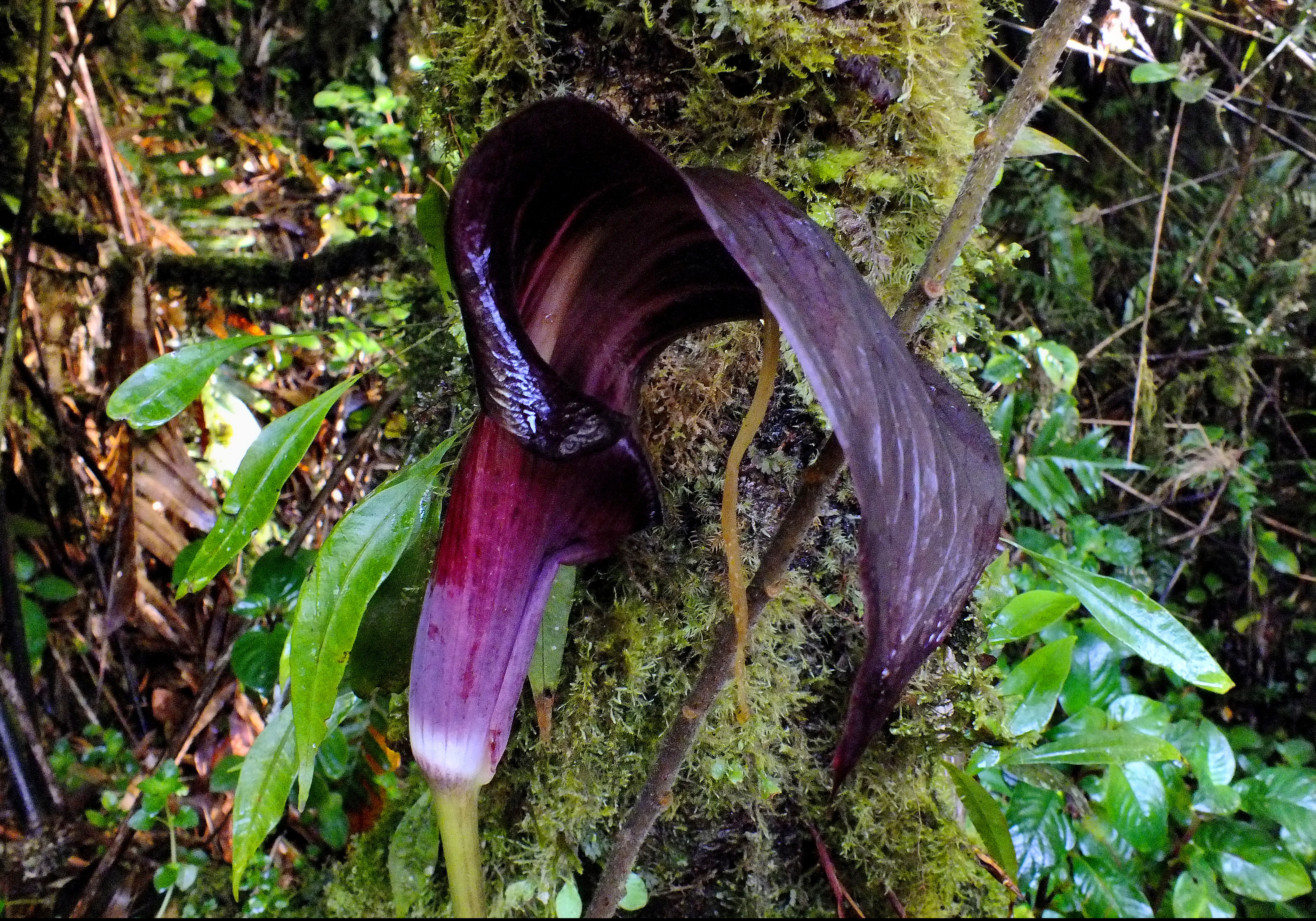 Arisaema filiforme, common name Purple Cobra Lily